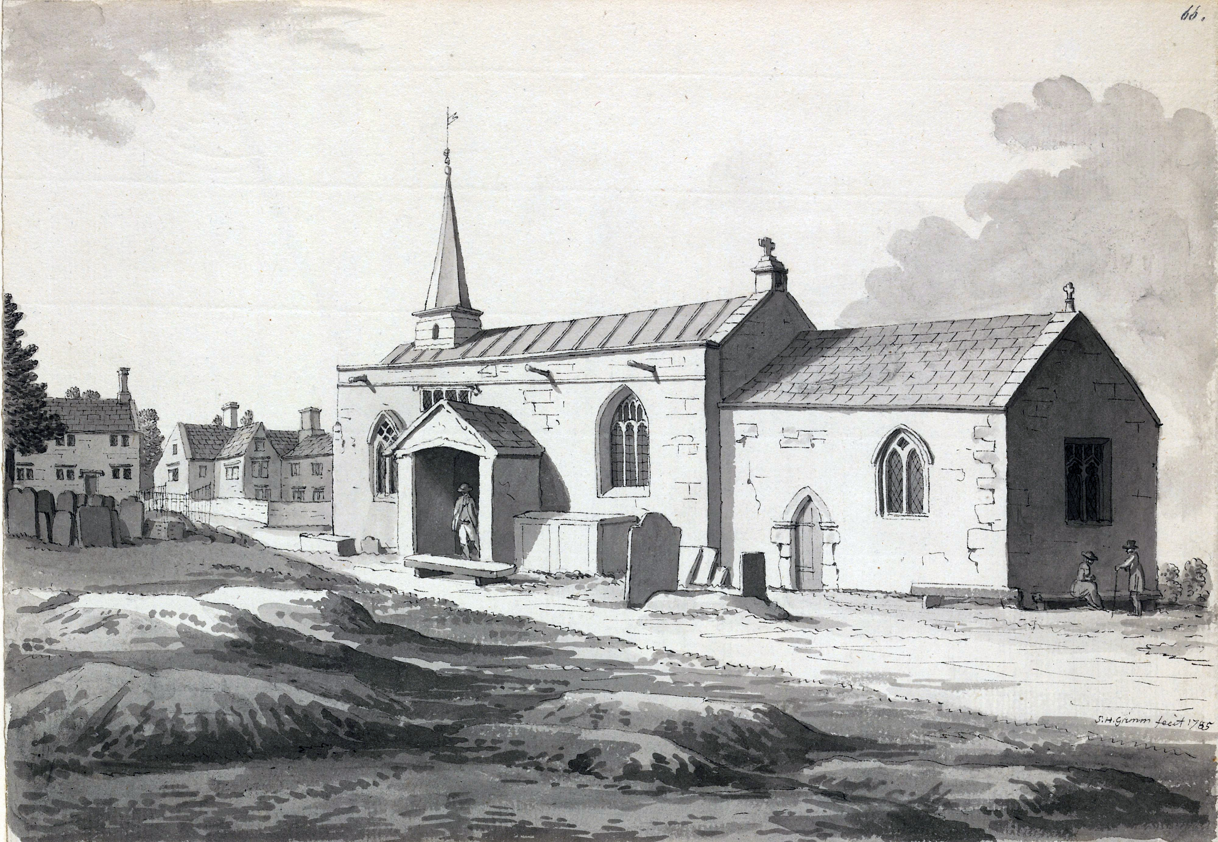 St Bartholomew's parish church, Old Whittington, Derbyshire, seen from the southeast. Samuel Pegge was vicar here from 1751. This church burnt down in 1895, and has been replaced by a newer building.